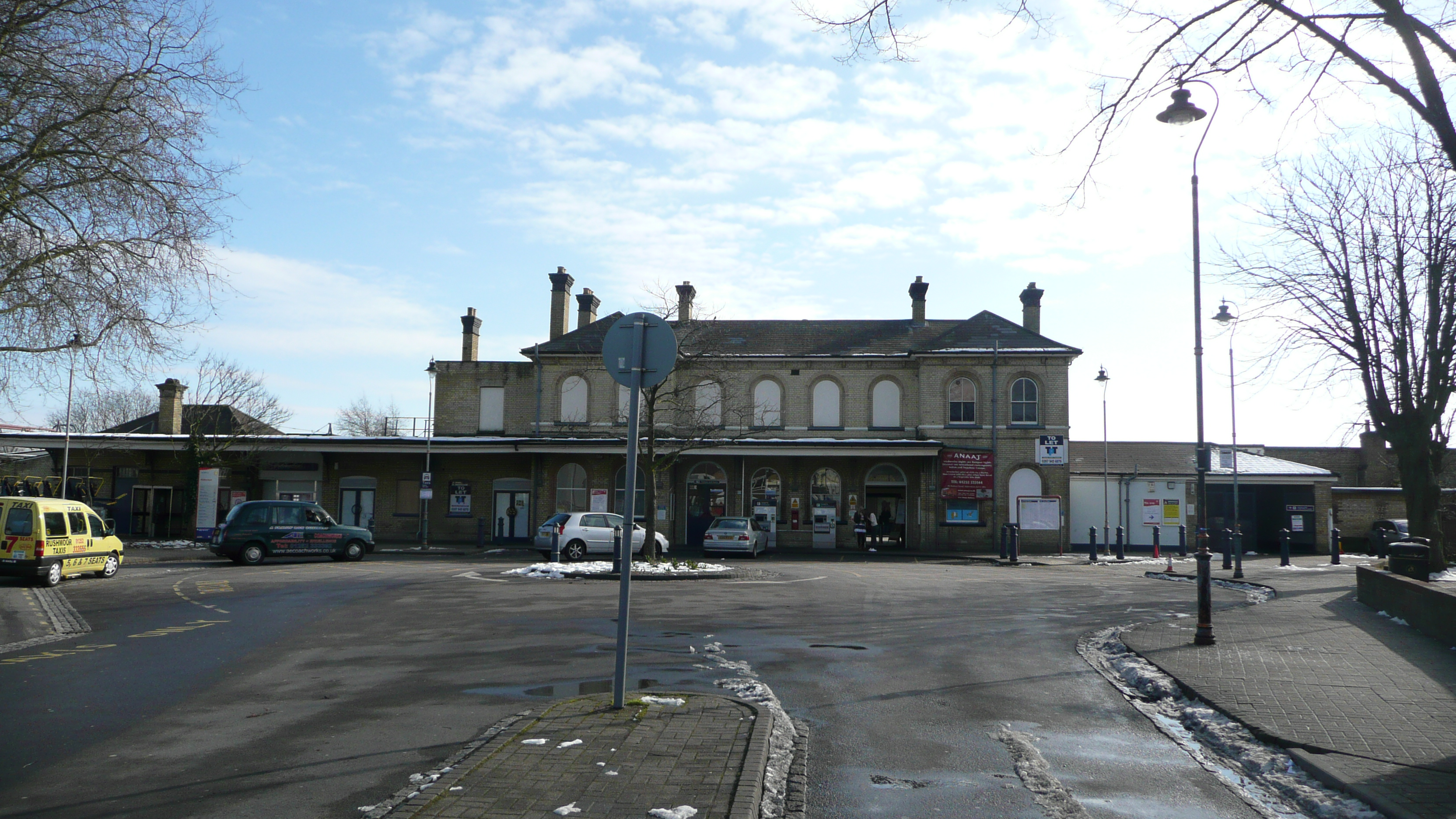 The front of Aldershot railway station, with some snow still left after the February 2009 Great Britain and Ireland snowfall.